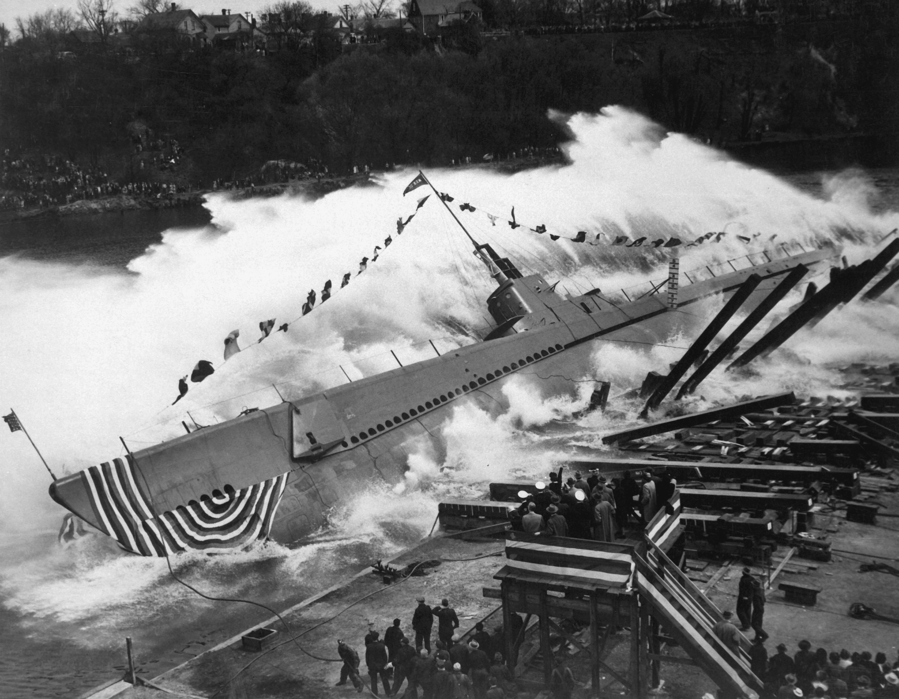 Launching of USS ROBALO 9 May 1943, at Manitowoc Shipbuilding Co., Manitowoc, Wis. (Navy) NARA FILE #: 080-G-68535 WAR & CONFLICT BOOK #: 821 Location: MANITOWOC, WISCONSIN (WI) UNITED STATES OF AMERICA (USA)